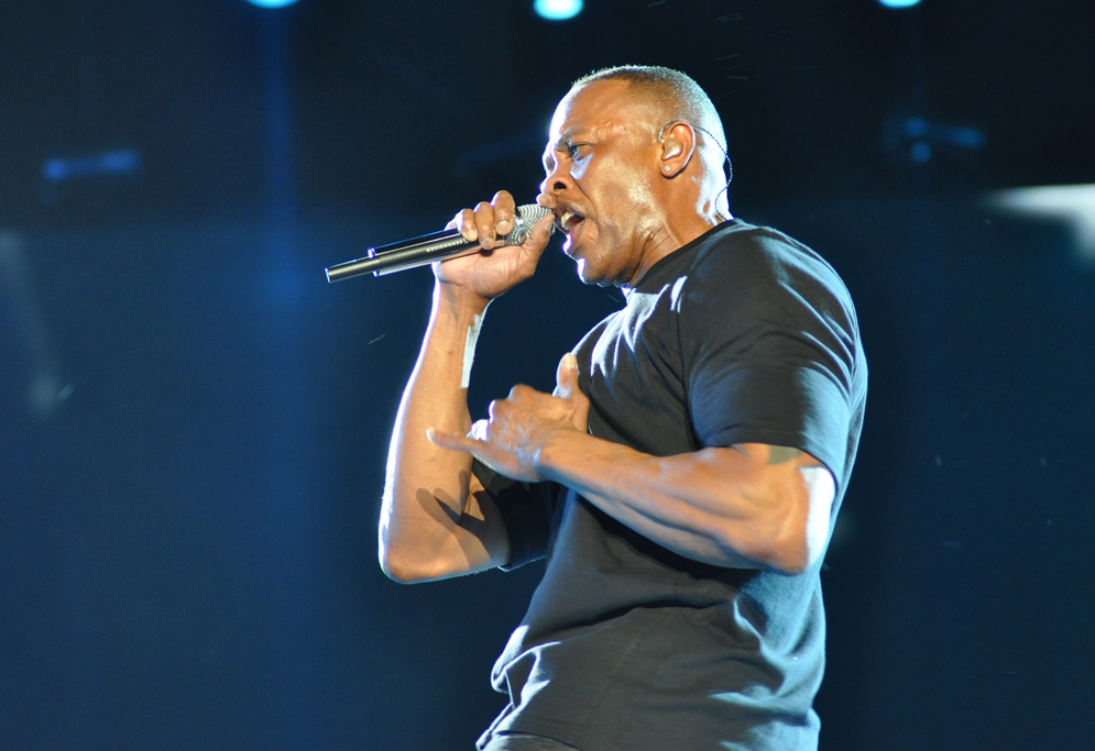 Dr.Dre at Coachella Valley Music and Arts Festival 2012